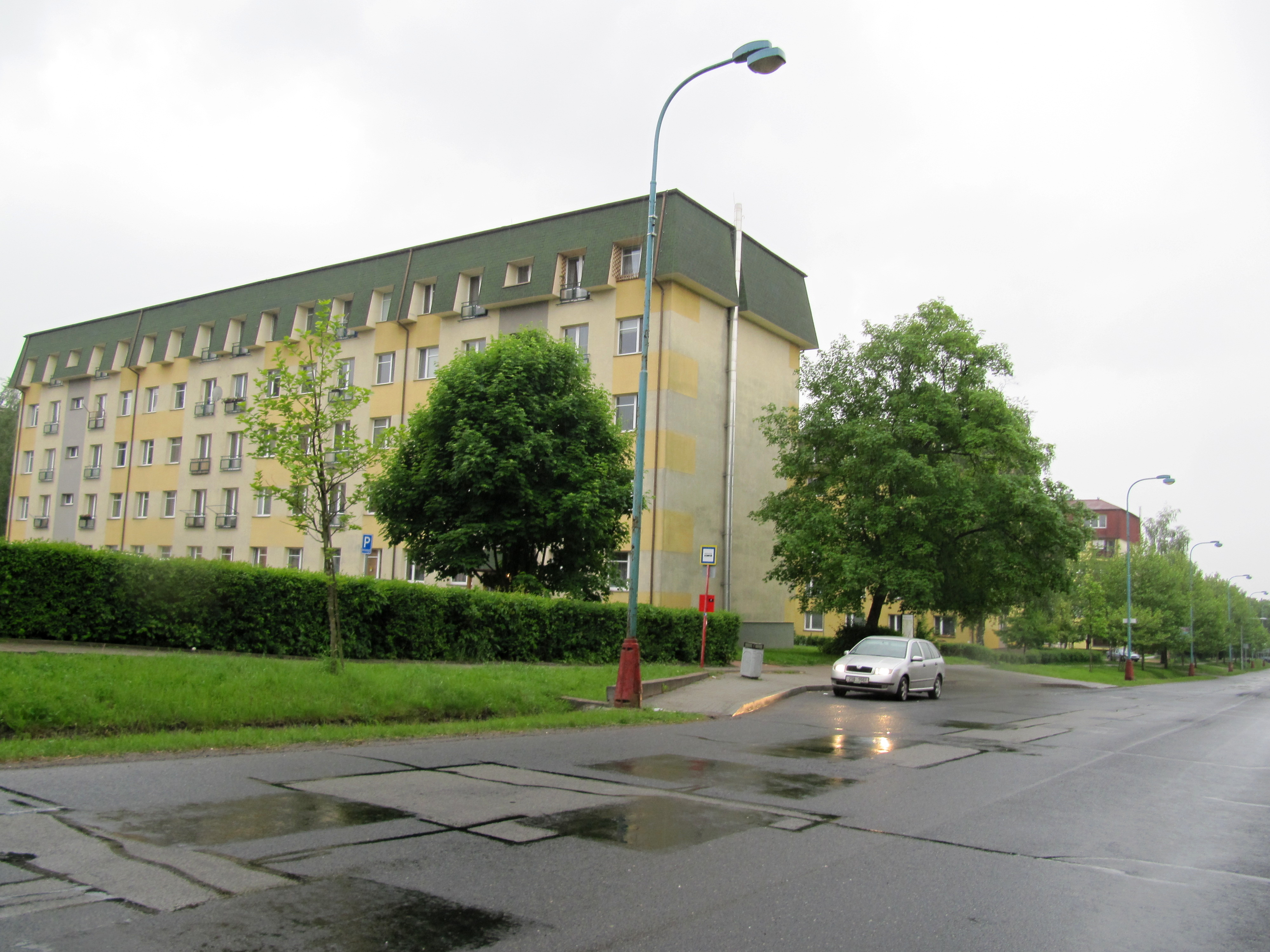 Milovice, Nymburk District, Czech Republic, part Mladá, Armádní street.